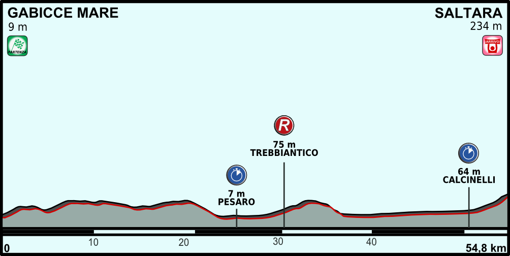 Giro d'Italia 2013 - stage profile # 08